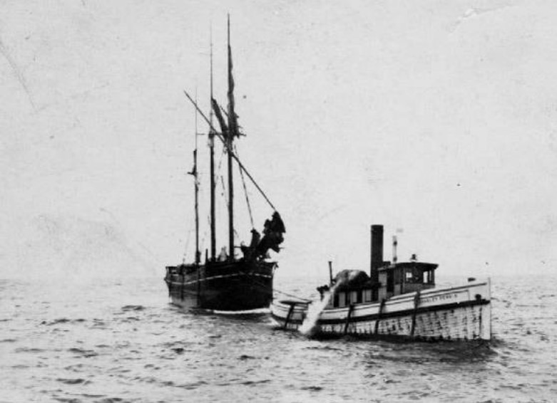 The schooner St. Peter underway